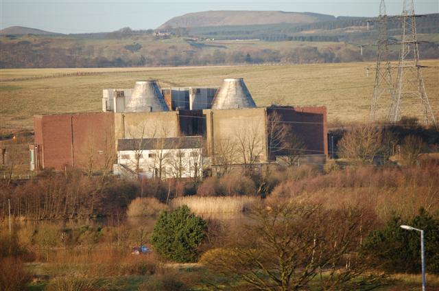 The disused gas-turbine power station at Townhill opened in 1909 to serve Dunfermline. It closed in 1985 and the twin chimneys have since been removed.